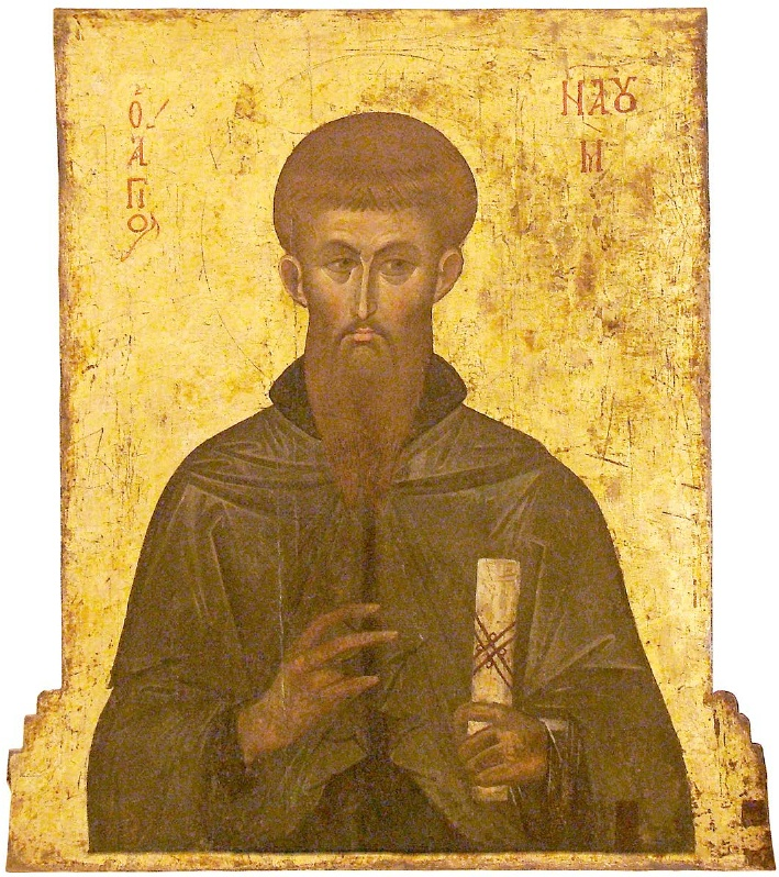 St Naum of Ohrid, Last Quarter of XIV Century, St Mary Perivleptos Church, Ohrid Icon Gallery